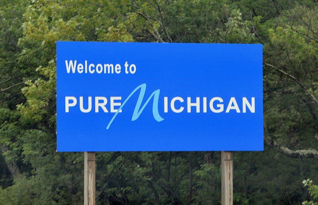 Michigan welcome sign